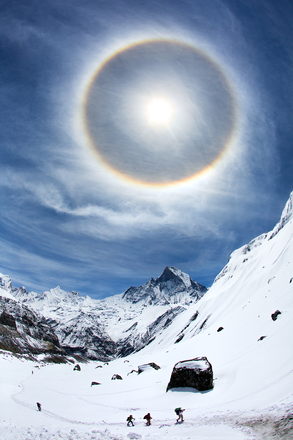 Halo is a kind of phenomenon which may be seen sometimes in the sky. A ring or circle of light around the sun or moon is called a halo by scientists. This scene is so stunning in it’s beauty that seems to be like miracle extending over the whole sky.